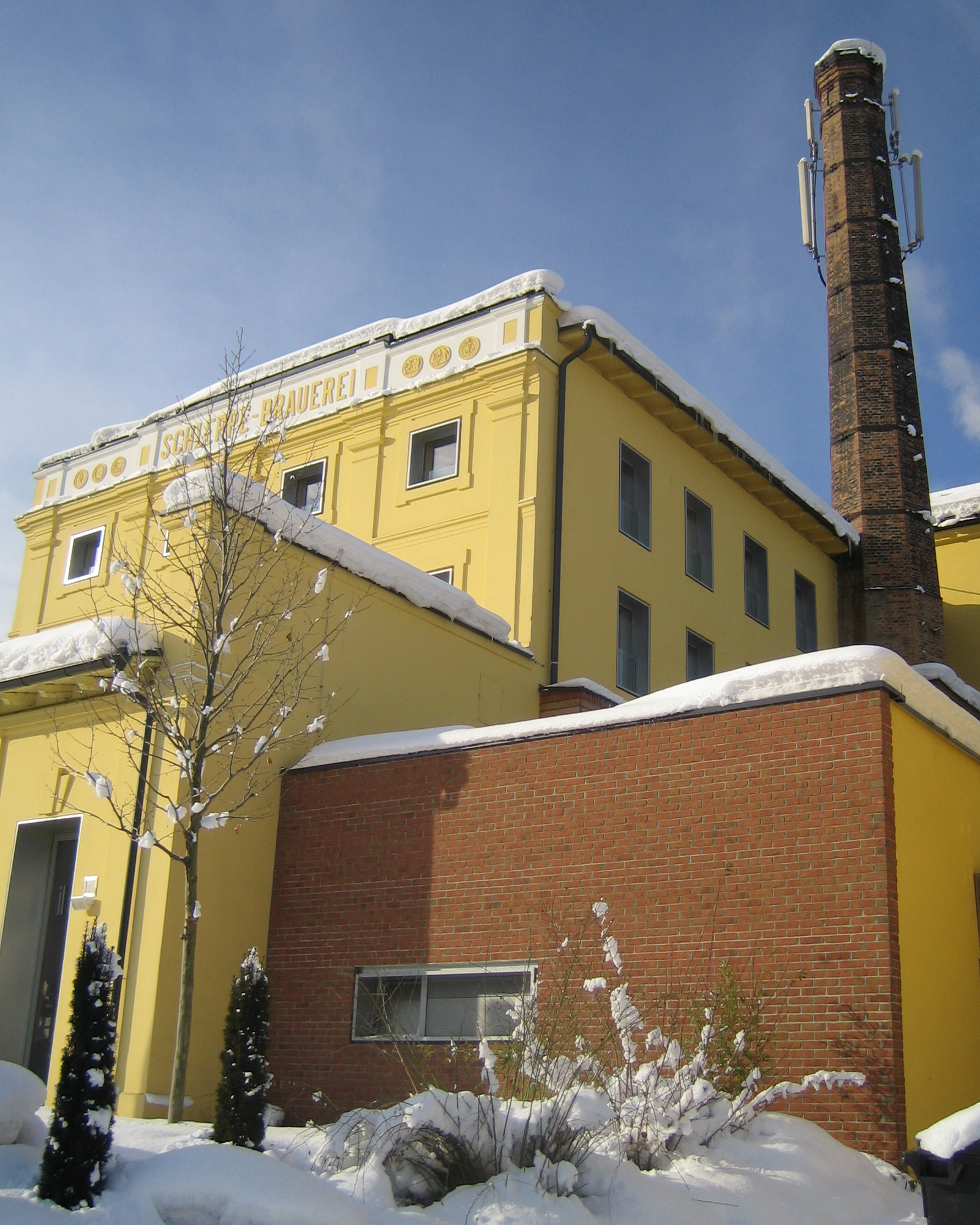 “Schleppe brewery” at the “Schleppe Kurve” in the Feldkirchner Strasse, situated in the 9th district “Annabichl” of the Carinthian capital Klagenfurt on the Lake Woerth, Carinthia, Austria